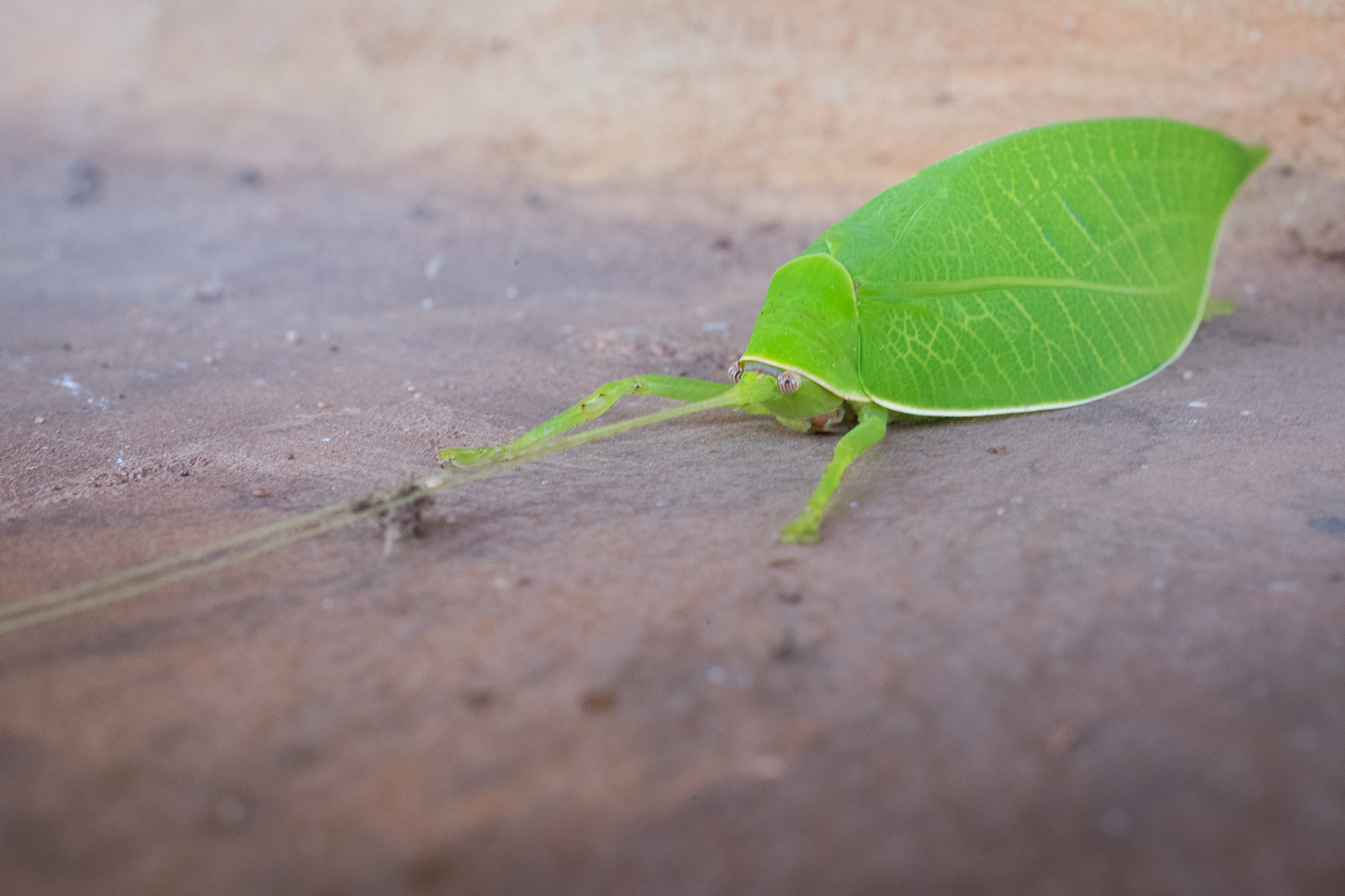 One of the True leaf katydids, Zabalius cf. ophthalmicus, in Bukoba, Lake Victoria, Tanzania, with the colourful hind legs hidden.